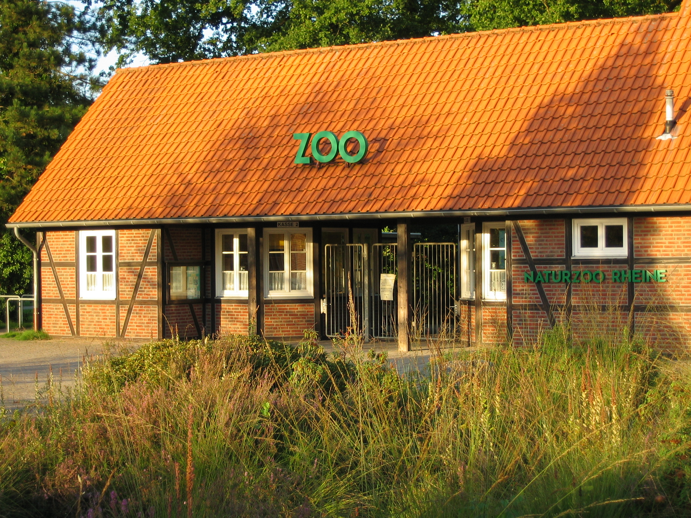 Rheine Nature Zoo, Rheine, Germany. Entrance area